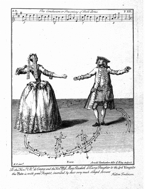 Plate from dancing manual The Art of Dancing Explained, published in London. (Library of Congress)